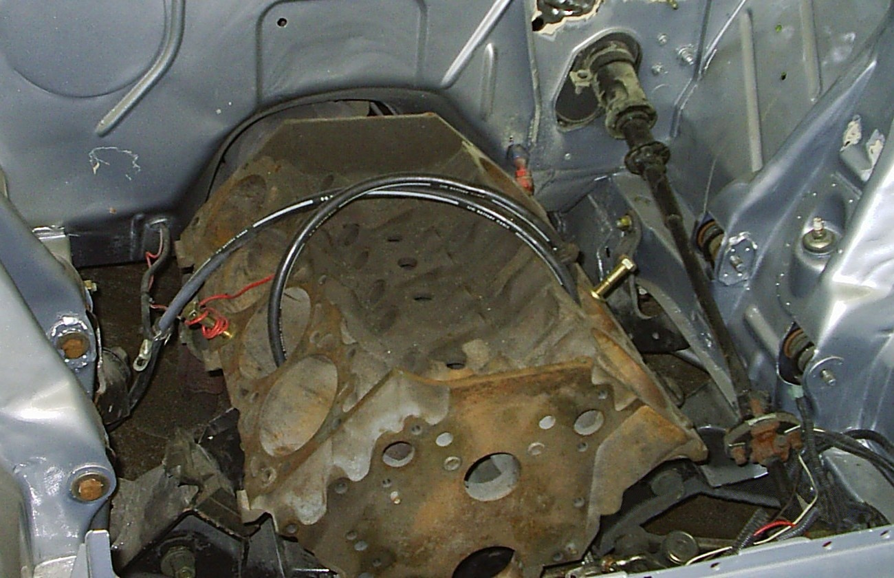 Engine bay of 1969 AMC AMX, a two-seat GT-type muscle car built by American Motors Corporation, showing a bare engine block as it is being prepared for "All American" racing. Picture taken of the car at Courtesy Jeep In Rockville, Maryland.